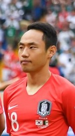 Mexico and South Korea match at the FIFA World Cup 2018-06-23